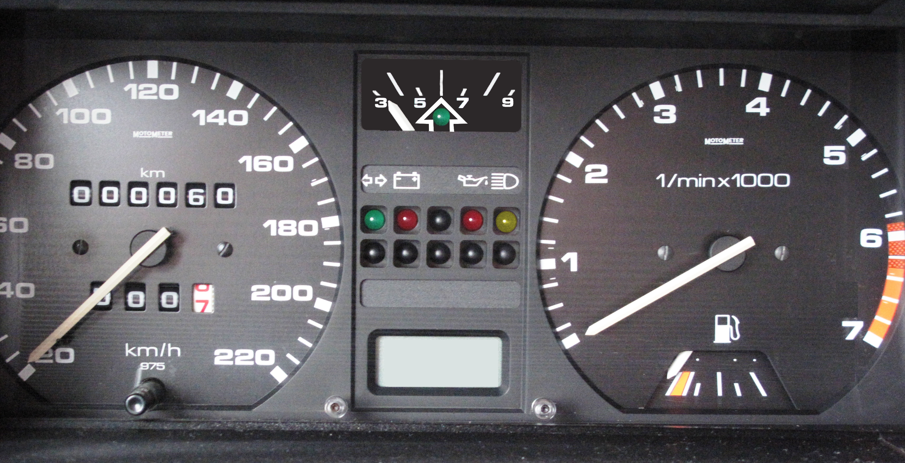 Speedmeter IRVW2 remaster Tacho Passat 32B